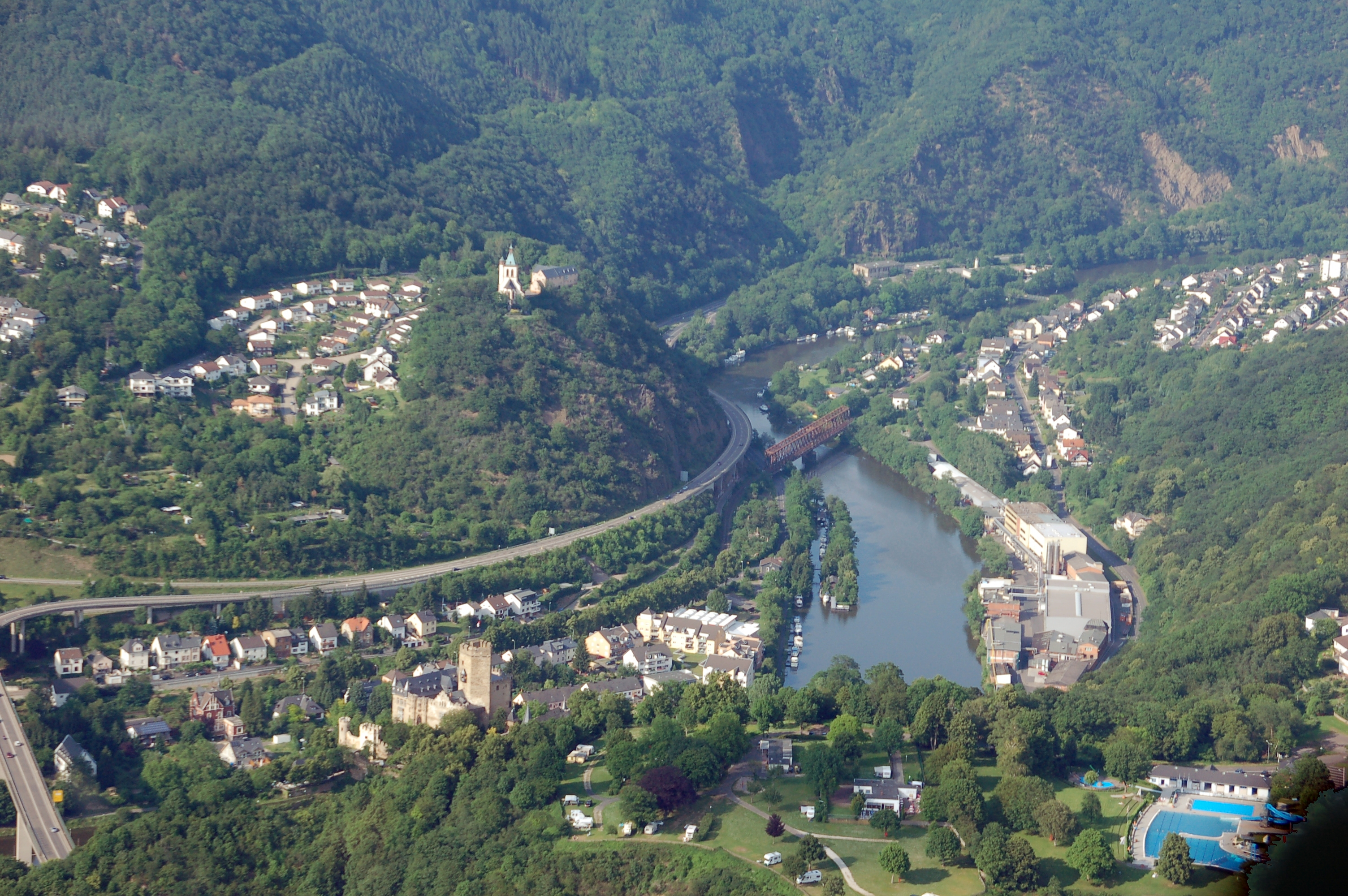 Aerial photograph of Lahnstein and Burg Lahneck, Rhineland-Palatinate, Germany